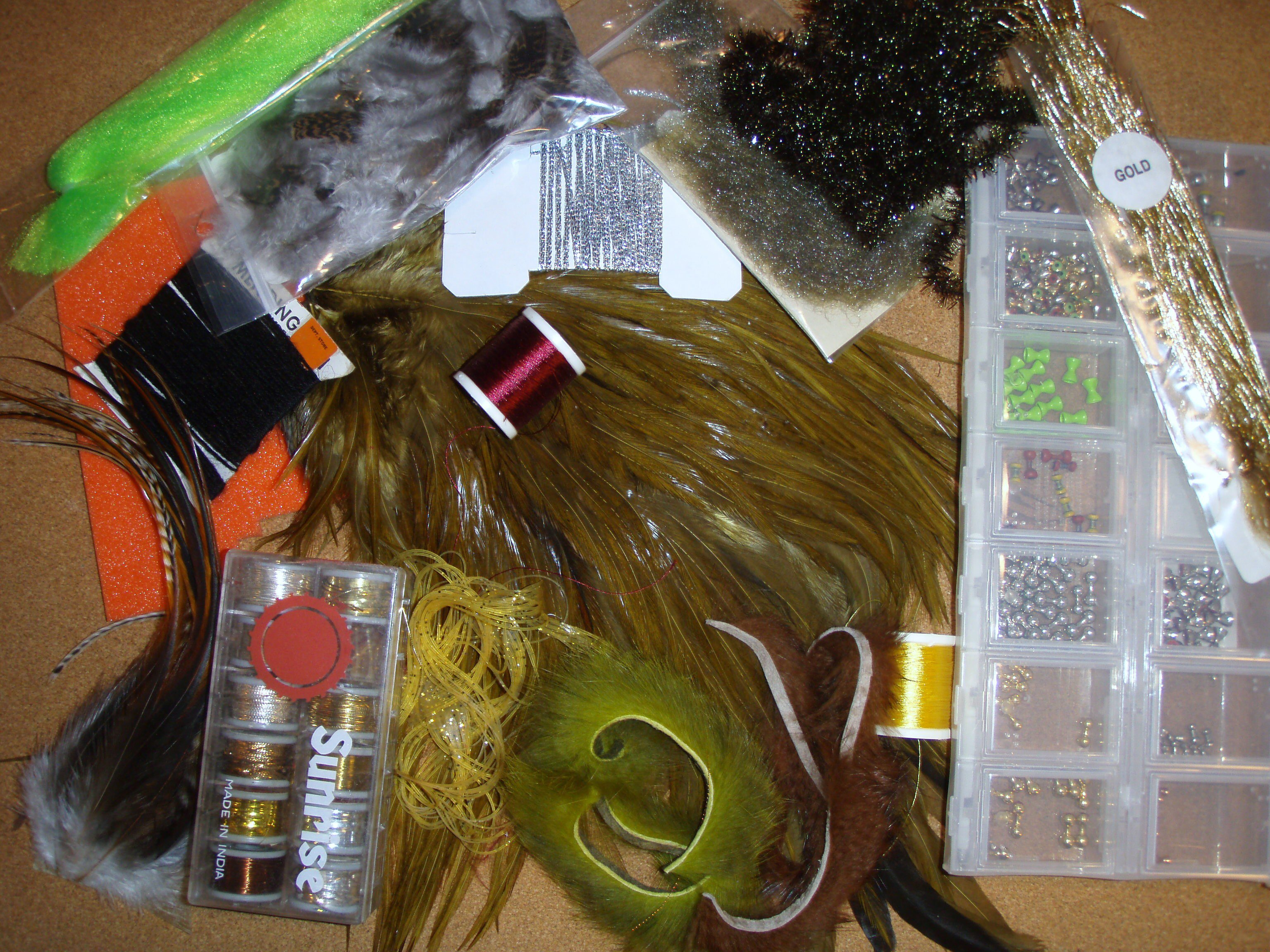 Illustrative Selection of Fly Tying Materials